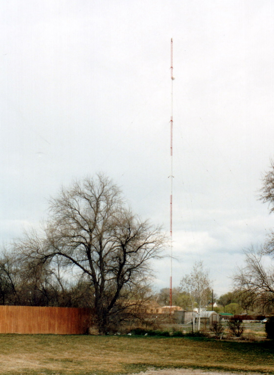 The broadcast tower for KEXO 1230 AM Grand Junction, Colorado.